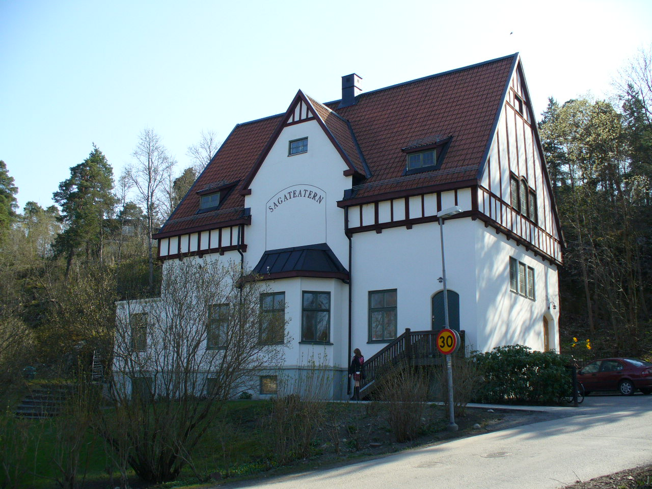 Sagateatern, Lidingö, Sweden